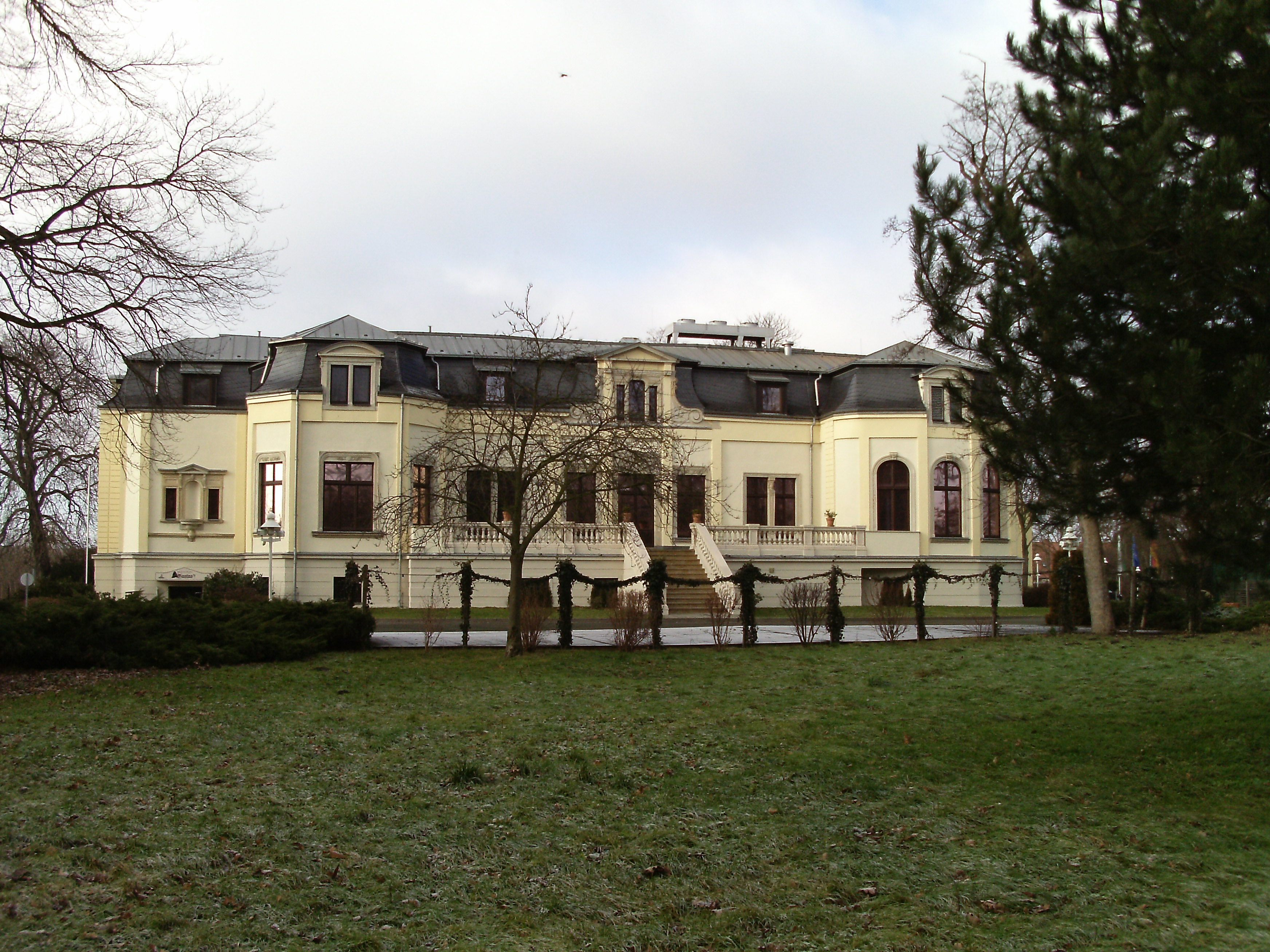 New Breitenfeld manor house (Leipzig, Saxony), east side